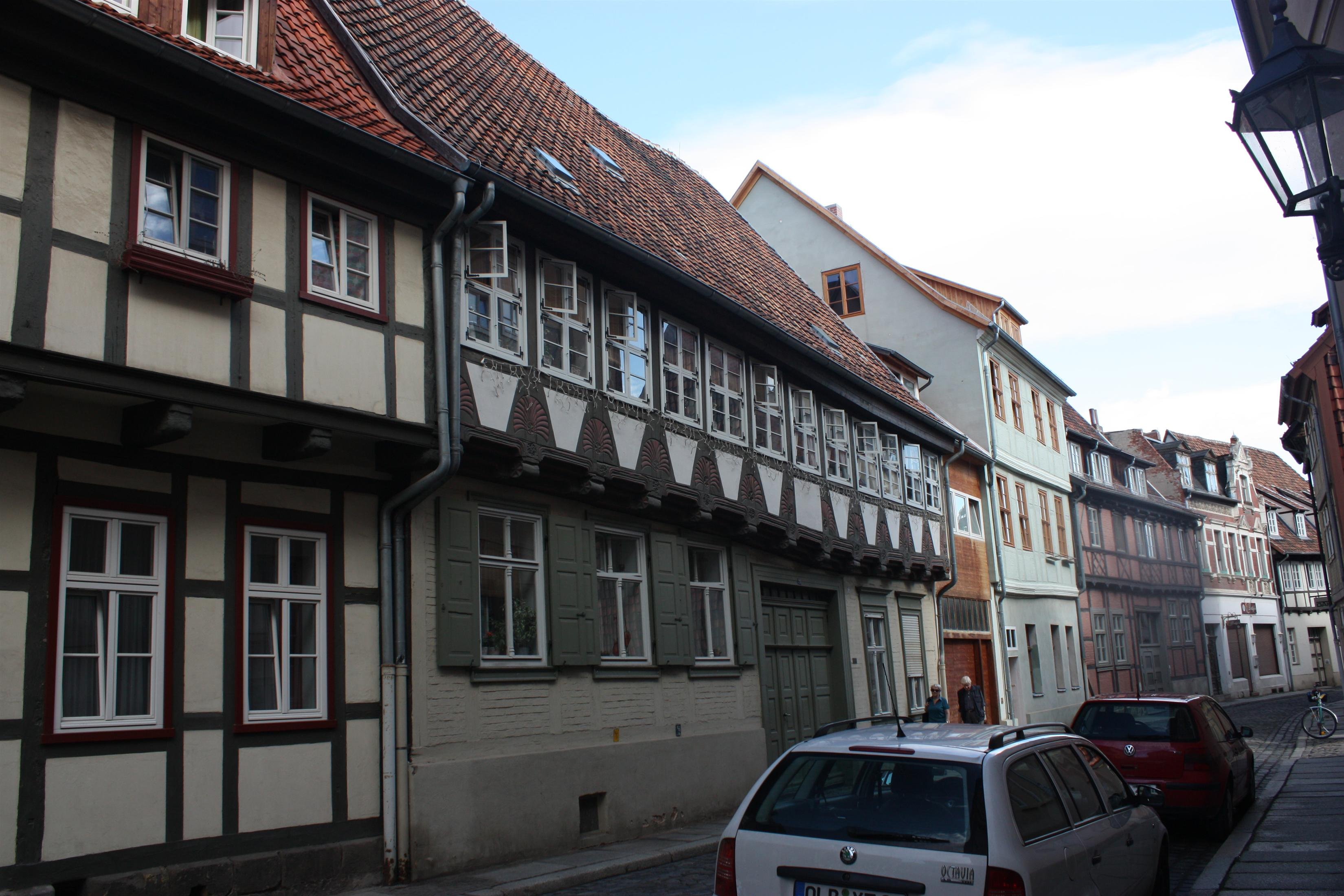 This is a photograph of an architectural monument.It is on the list of cultural monuments of Quedlinburg Hohe Straße 29